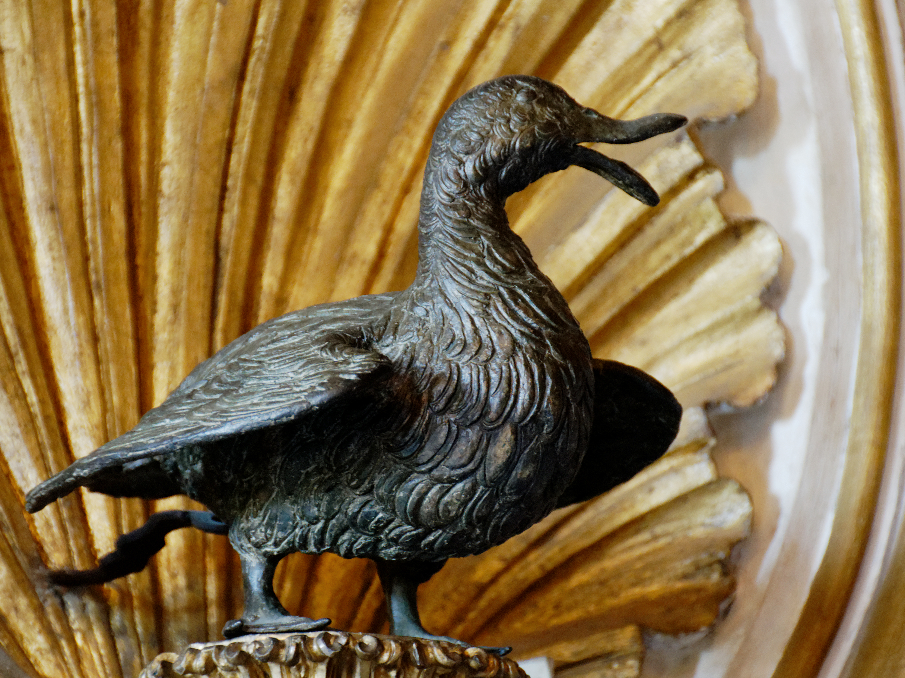 Bronze goose, Roman artwork of the imperial period.